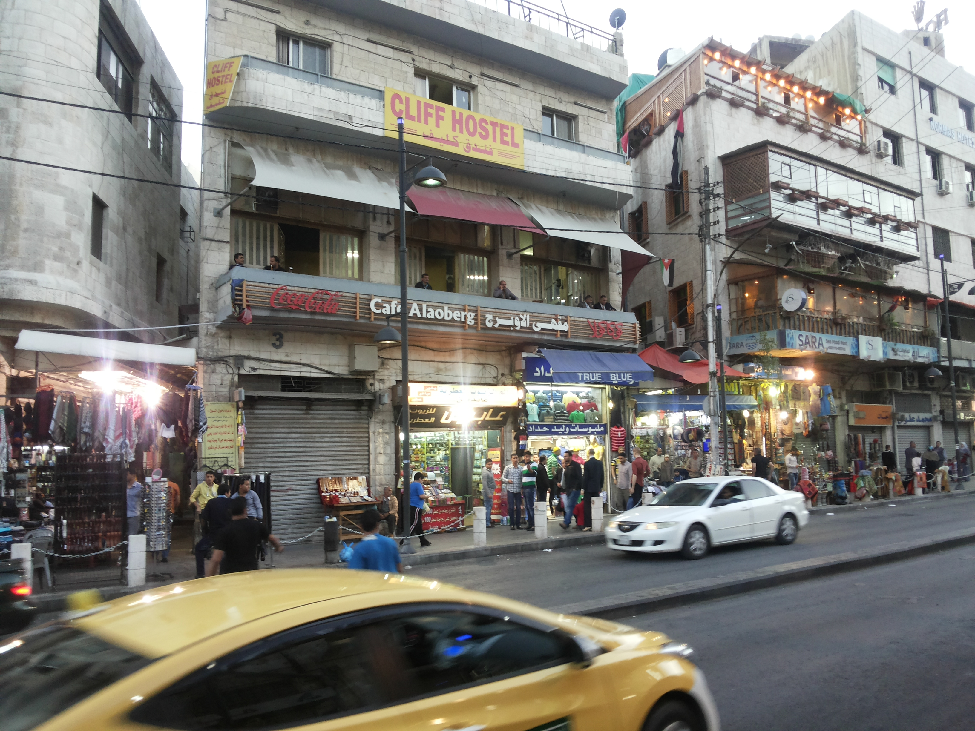 Cafe and Restaurant Alaoberg at Downtown Amman, Jordan.